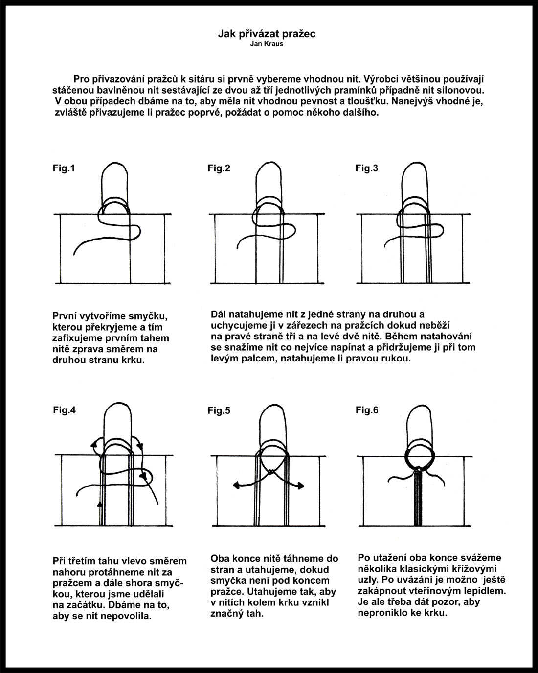 How to tie a sitar fret - Jak přivázat sitárový pražec